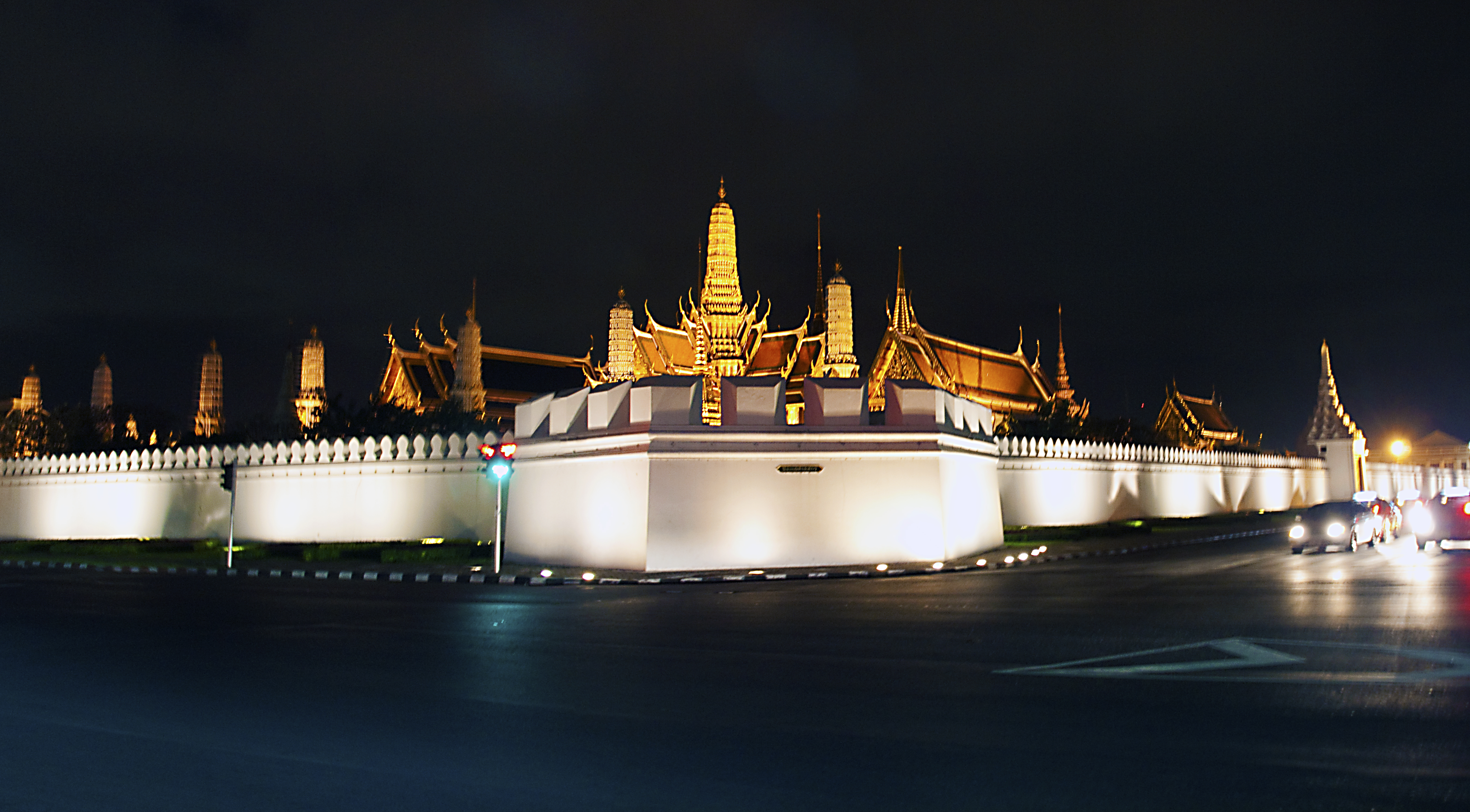 A panorama night view of The Grand Palace in Bangkok, Thailand.